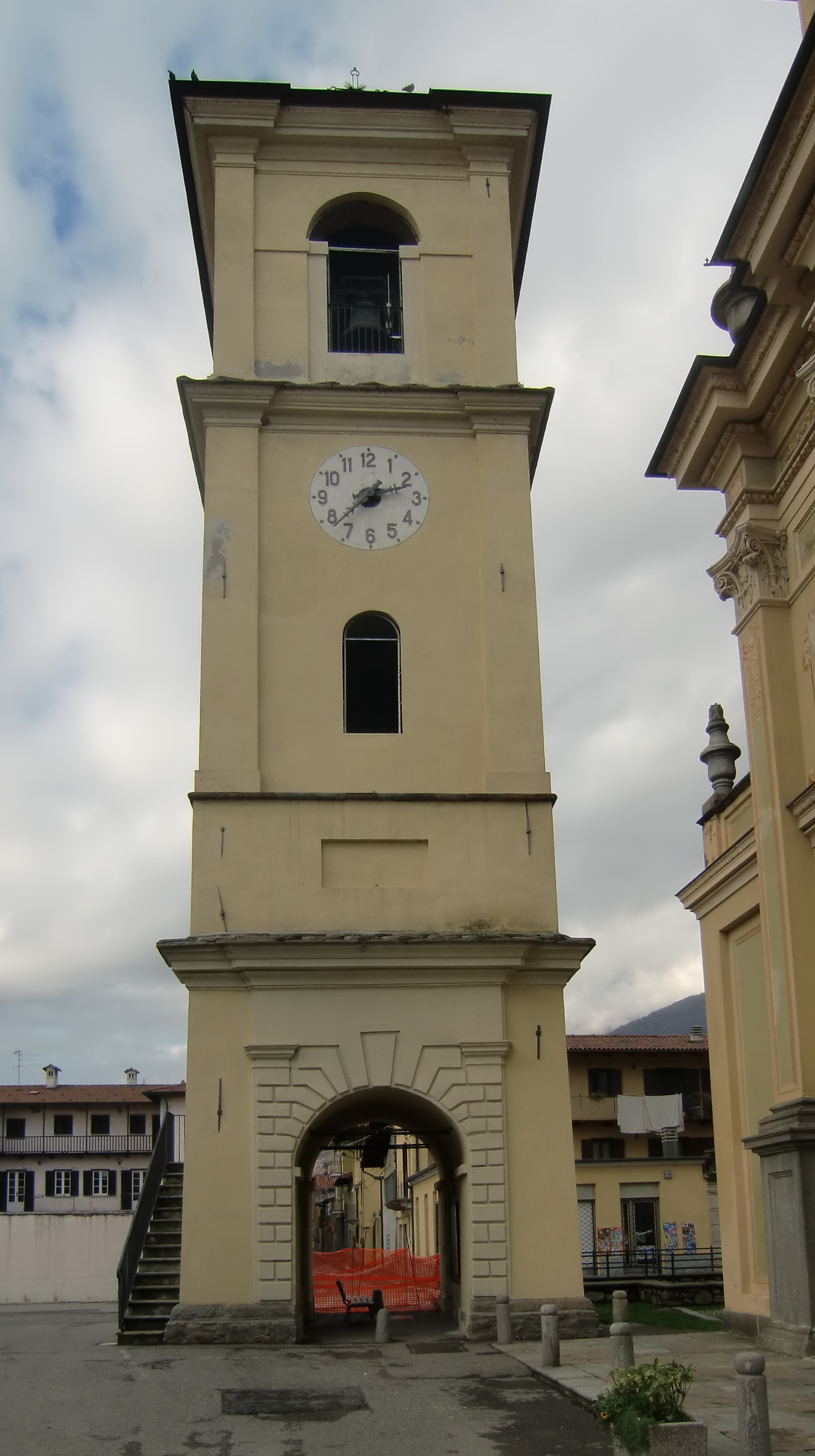 Door-tower, Borgofranco di Ivrea (TO), Italy